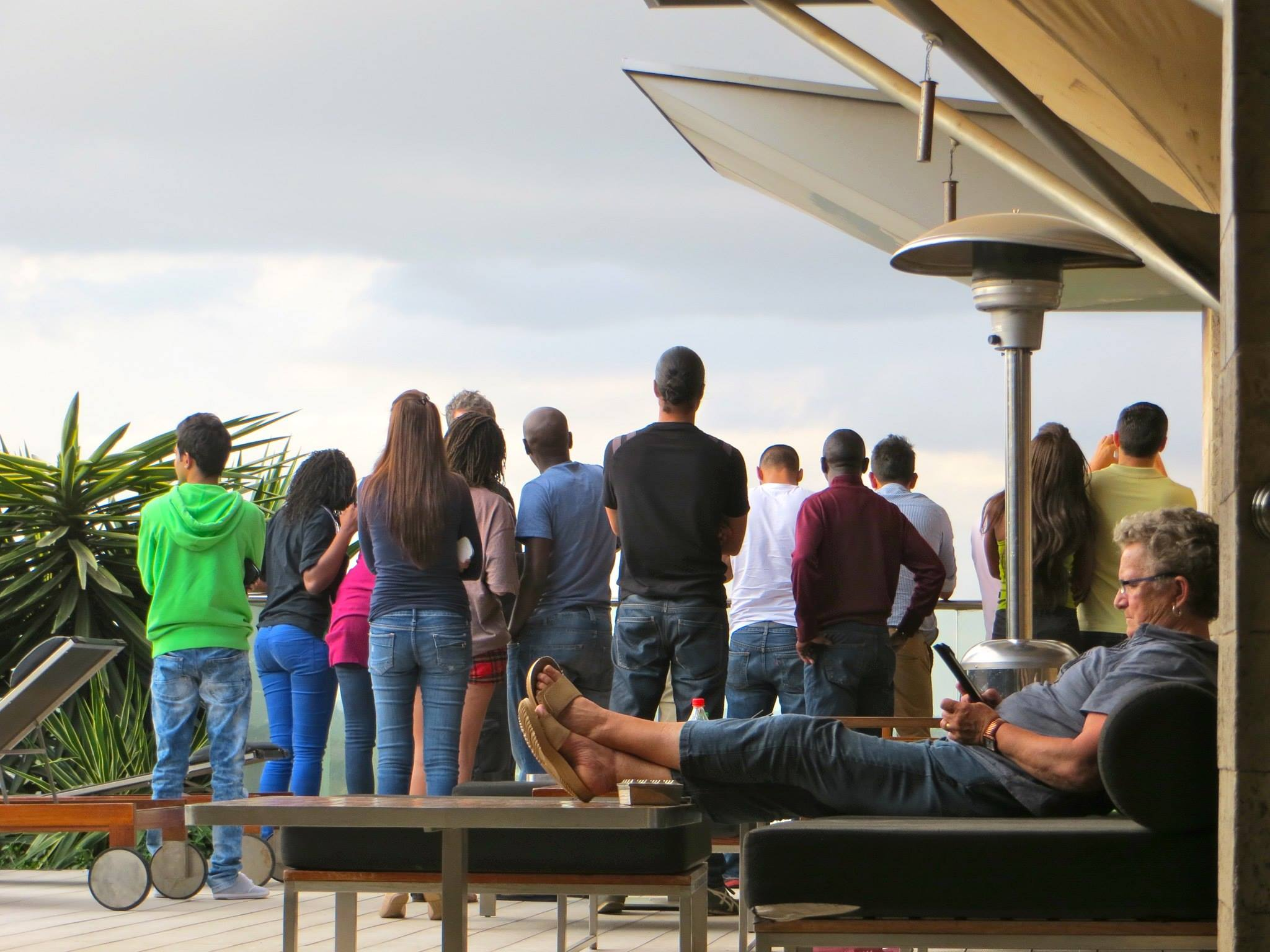 Taken of and around the 2013 Westgate shopping mall terrorist incident in Nairobi, Kenya.